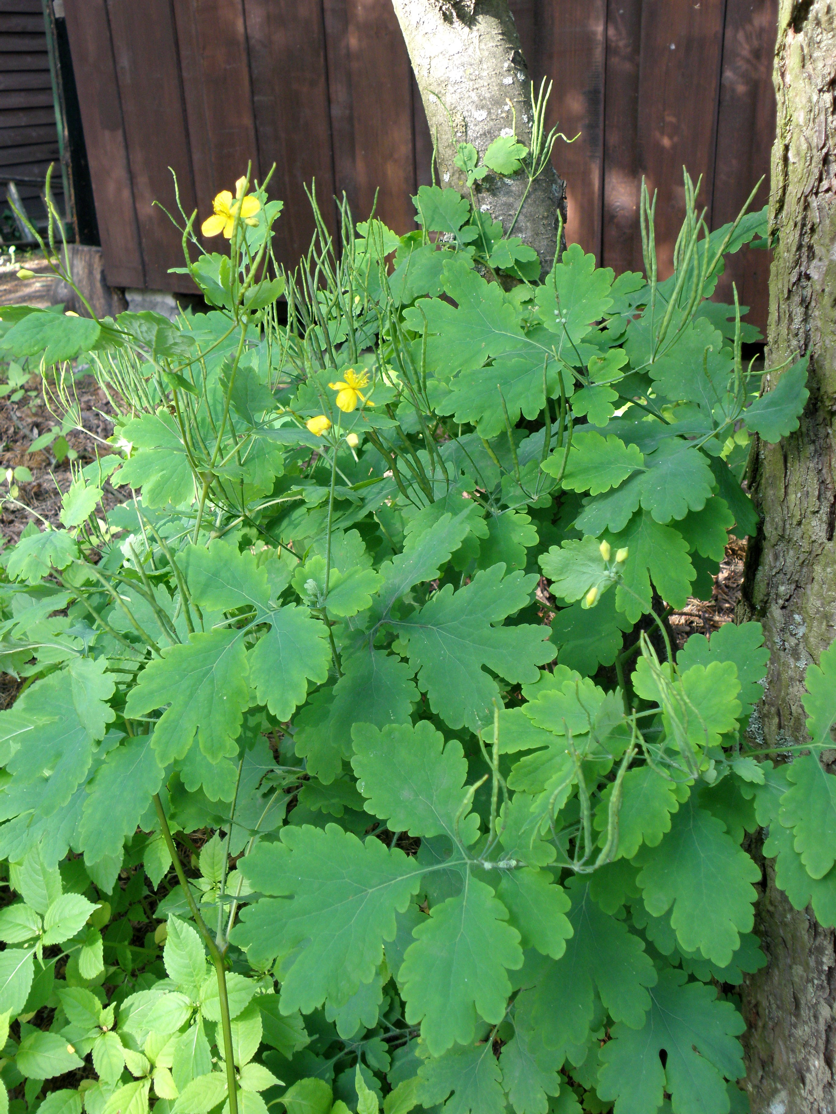 Chelidonium majus